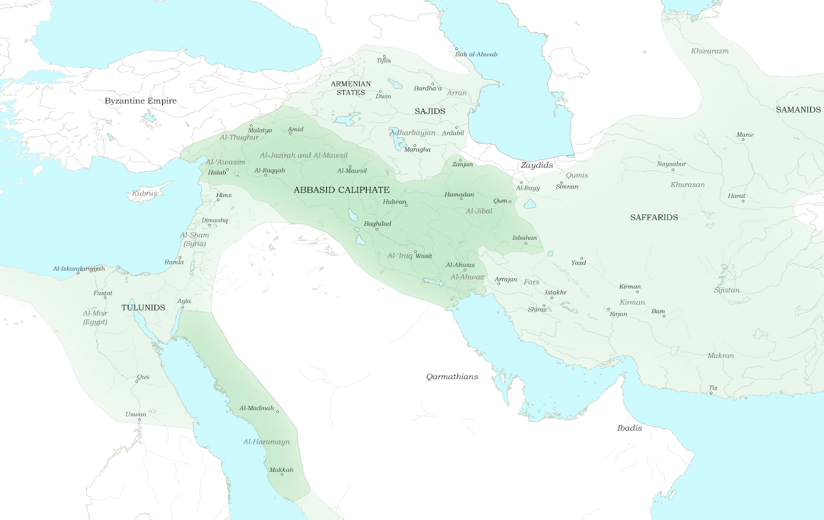 Map of the central Abbasid Caliphate at the beginning of 900 AD. Dark green denotes provinces under the effective control of the central government; light green denotes provinces under the control of autonomous governors. Rebel Muslim groups are noted with italics. The principal sources for this map are al-Tabari, volumes 37 and 38; and Bosworth, pp. 214 ff. Background topography taken from DEMIS Mapserver, which are public domain. This map was created for the article Works Cited: Bosworth, C.E. The History of the Saffarids of Sistan and the Maliks of Nimruz (247/861 to 949/1542-3). Costa Mesa, California: Mazda Publishers, 1994. ISBN 1-56859-015-6 Al-Tabari, Abu Ja'far Muhammad ibn Jarir. The History of al-Tabari. Ed. Ehsan Yar-Shater. 40 vols. Albany, NY: State University of New York Press, 1985-2007.